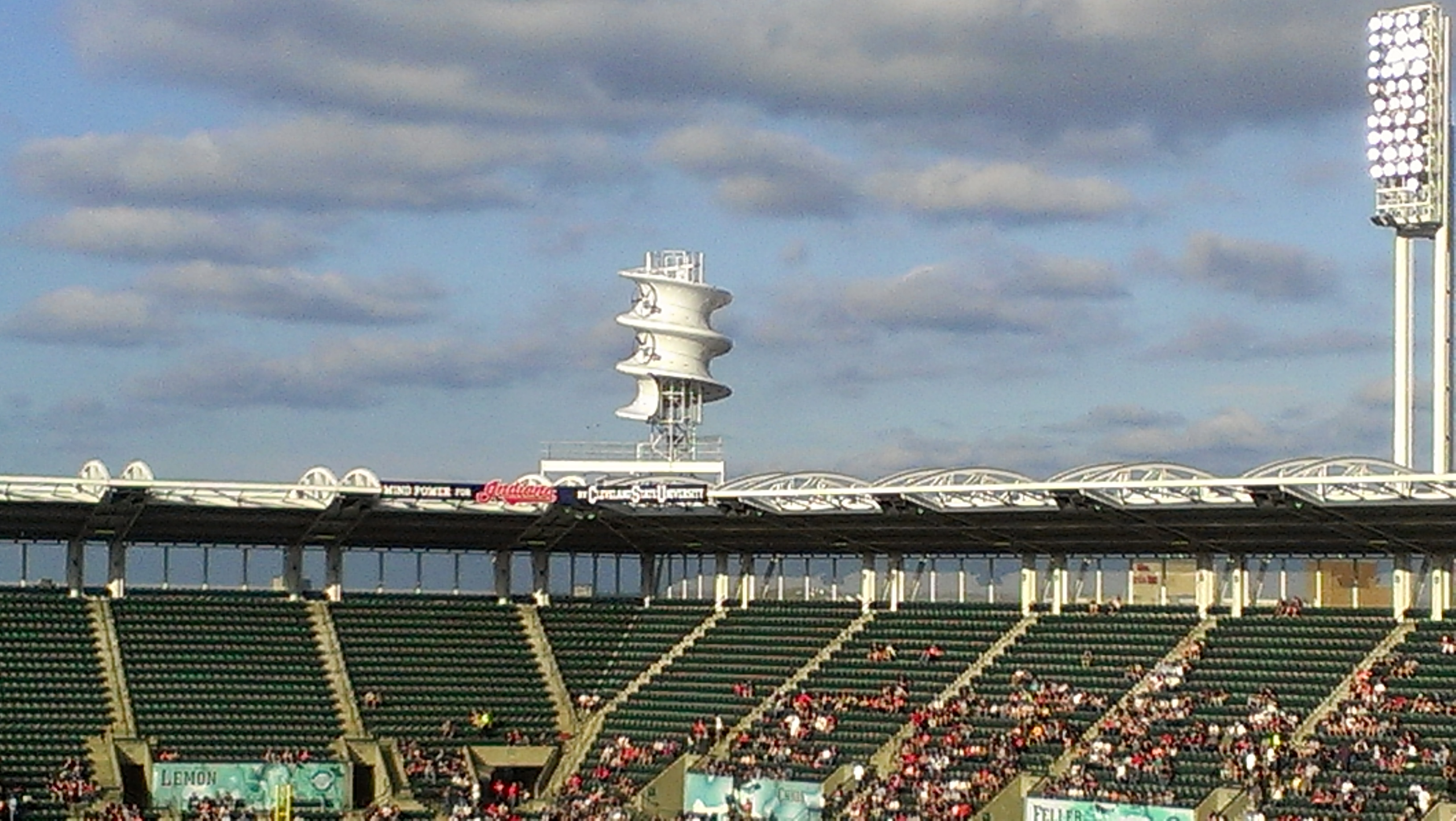 The new corkscrew shaped wind turbine at Progressive Field in Cleveland, Ohio.